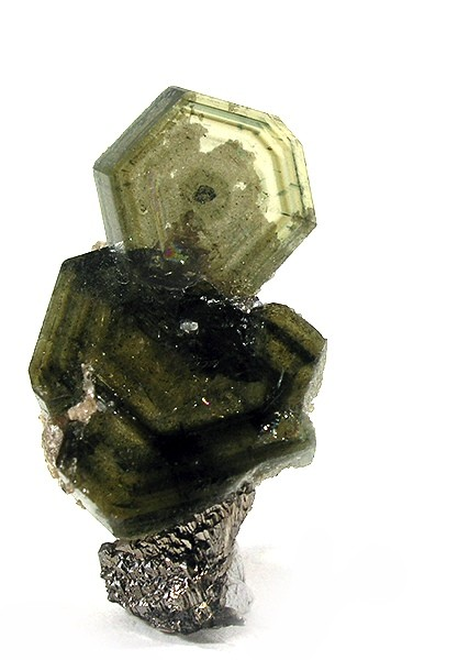 Apatite Locality: Panasqueira, Covilhã, Castelo Branco District, Portugal (Locality at ) This is an exquisite, competition quality, fluorapatite specimen. It is a large thumbnail or small miniature depending on how you display it. The color is a light green with super luster. For me, the specimen is highlighted by a transparent crystal exhibiting color zoning around the perimeter of the crystal. This gem crystal is 1.35 cm across. I don’t think I have ever seen another apatite crystal like this before. 3 x 1.6 x 0.8 cm